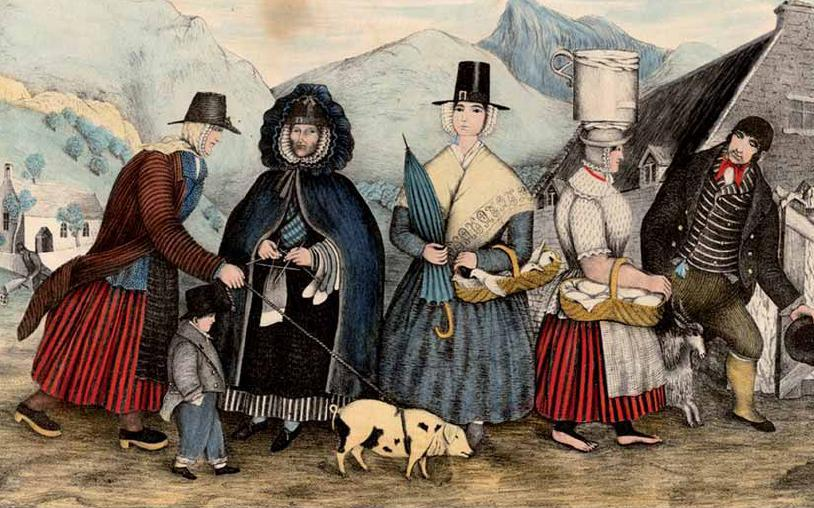 Drawing by R Griffiths, held by Ceredigion Museum showing several people in traditional Welsh fashions of the period